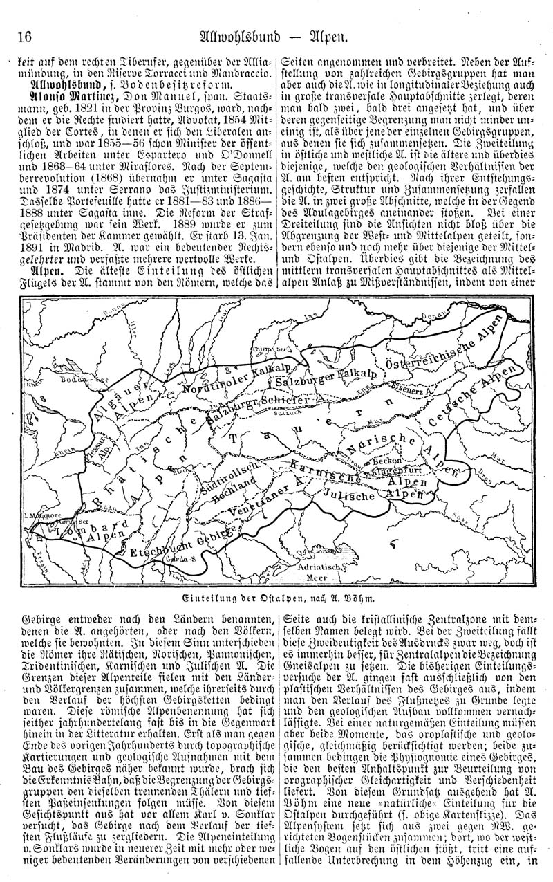 This is page 0030 of 1028, in Volume 19 of the German illustrated encyclopedia Meyers Konversationslexikon, 4th edition (1885-1890), fraktur font.